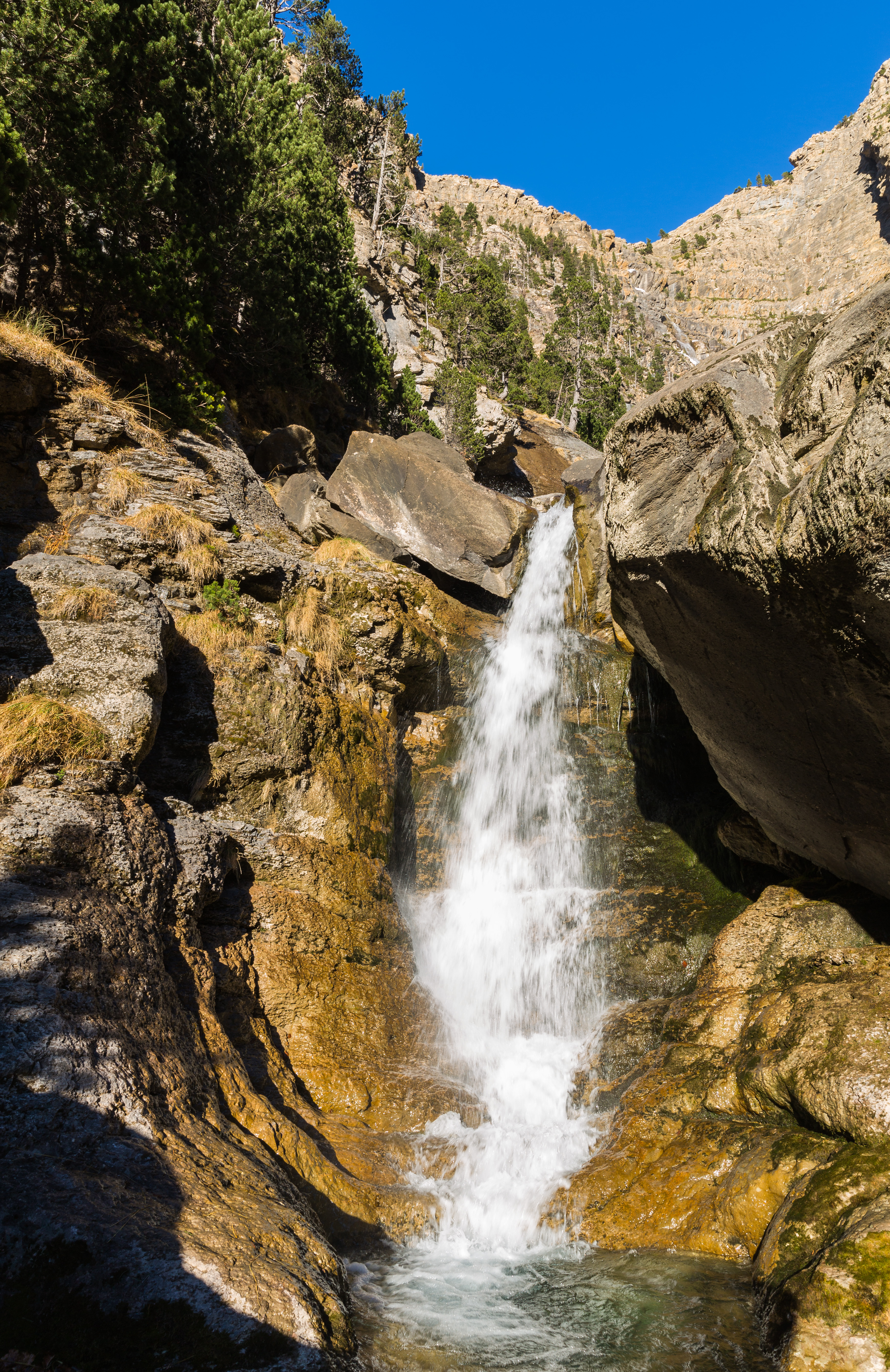 Ordesa y Monte Perdido National Park, Huesca, Spain